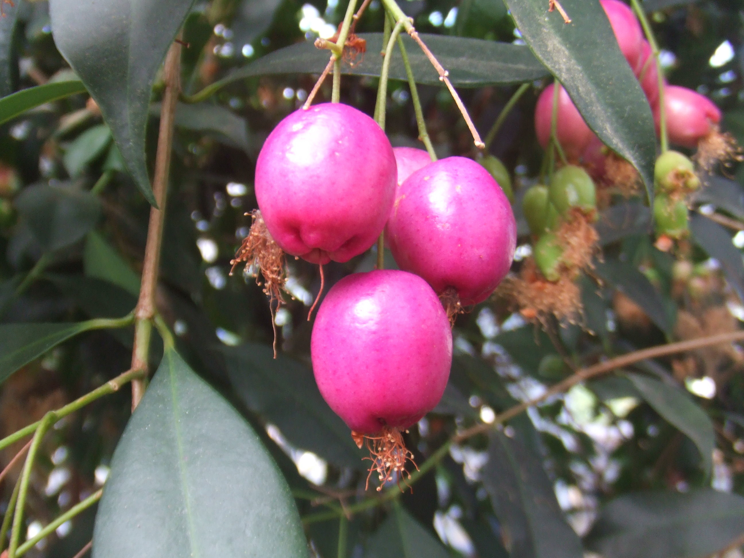 Syzygium_oleosum, picture taken at a garden center